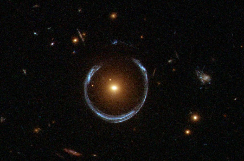 What's large and blue and can wrap itself around an entire galaxy? A gravitational lens mirage. Pictured above, the gravity of a luminous red galaxy (LRG) has gravitationally distorted the light from a much more distant blue galaxy. More typically, such light bending results in two discernible images of the distant galaxy, but here the lens alignment is so precise that the background galaxy is distorted into a horseshoe -- a nearly complete ring. Since such a lensing effect was generally predicted in some detail by Albert Einstein over 70 years ago, rings like this are now known as Einstein Rings. Although LRG 3-757 was discovered in 2007 in data from the Sloan Digital Sky Survey (SDSS), the image shown above is a follow-up observation taken with the Hubble Space Telescope's Wide Field Camera 3. Strong gravitational lenses like LRG 3-757 are more than oddities -- their multiple properties allow astronomers to determine the mass and dark matter content of the foreground galaxy lenses. (citation from APOD)